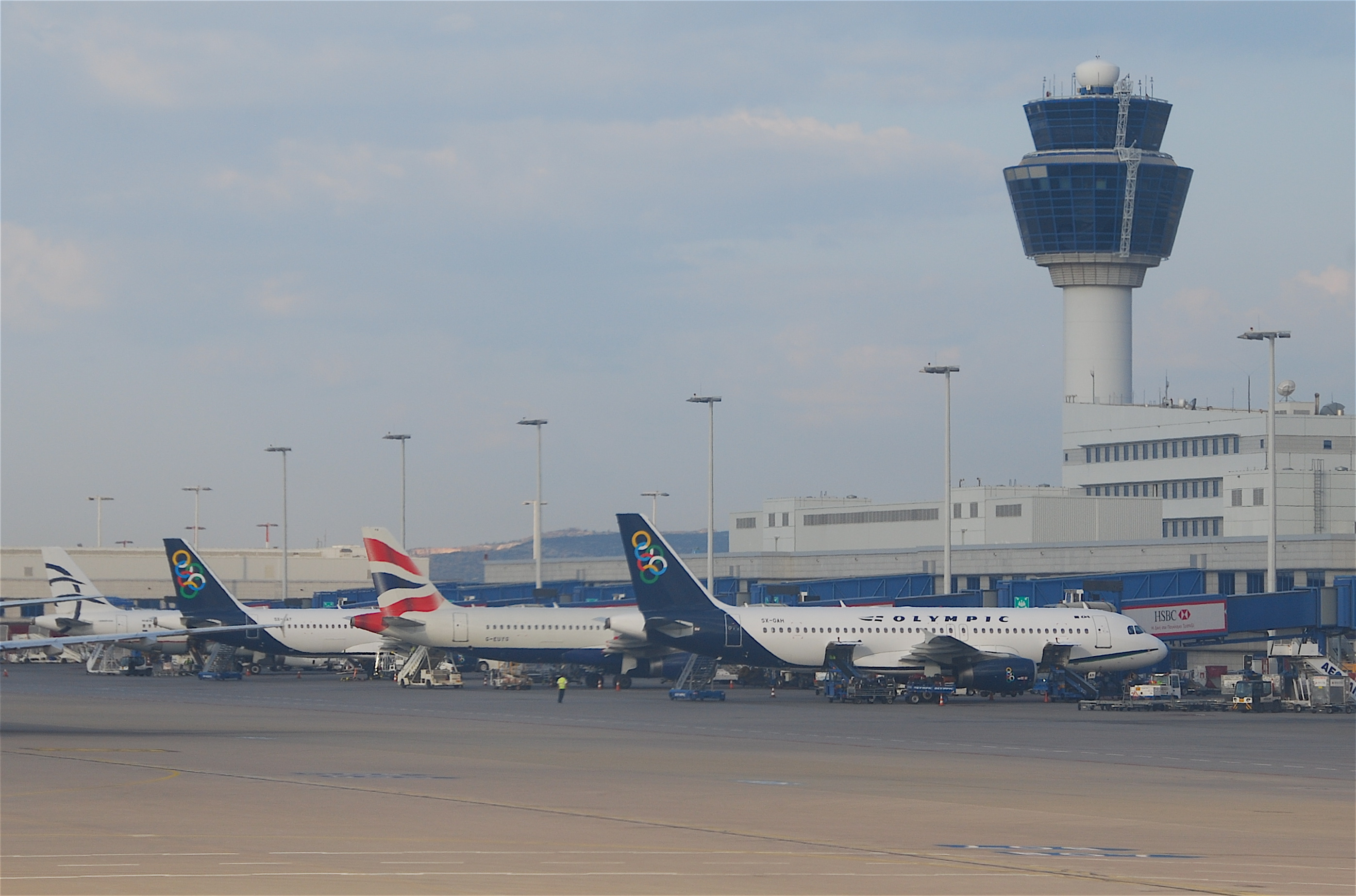 One of the rare shots nowadays with Olympic Airbus tails outnumbering Aegean's...